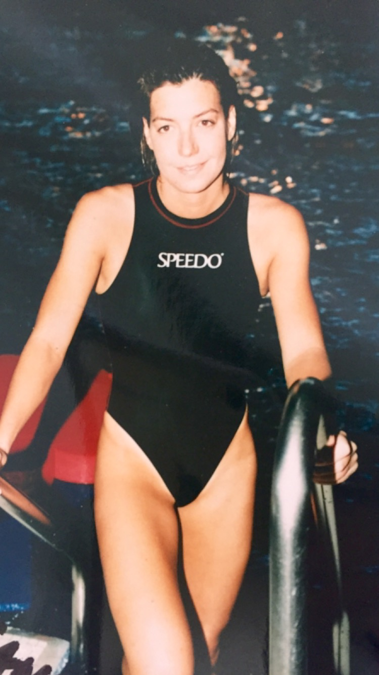 swimming picture